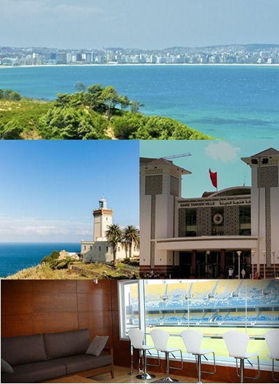 Collage of views of the city of Tangier